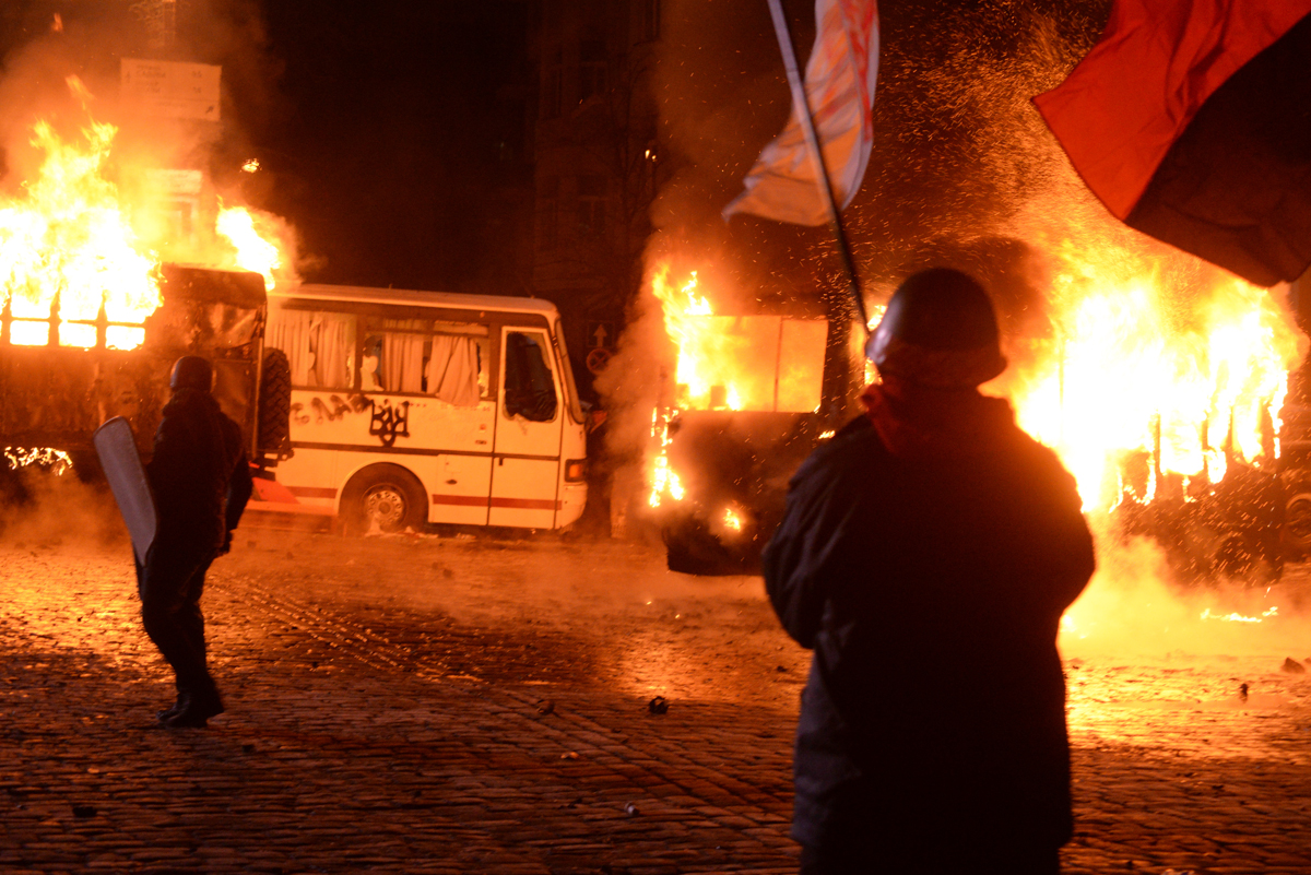 Dynamivska str barricades on fire. Euromaidan Protests. Events of Jan 19, 2014-2